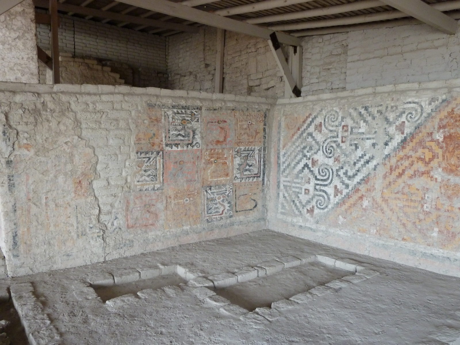 Frescos on walls beside the tomb of the "Senora de Cao", a female spiritual and political Moche leader. On the floor, tombs of other persons that "accompanied" La Senora in the underworld. Huaca Cao Viejo, El Brujo archaeological complex, La Libertad, Peru. El Brujo was an important centre of the Moche civilization.